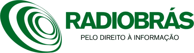 Nbr Photo